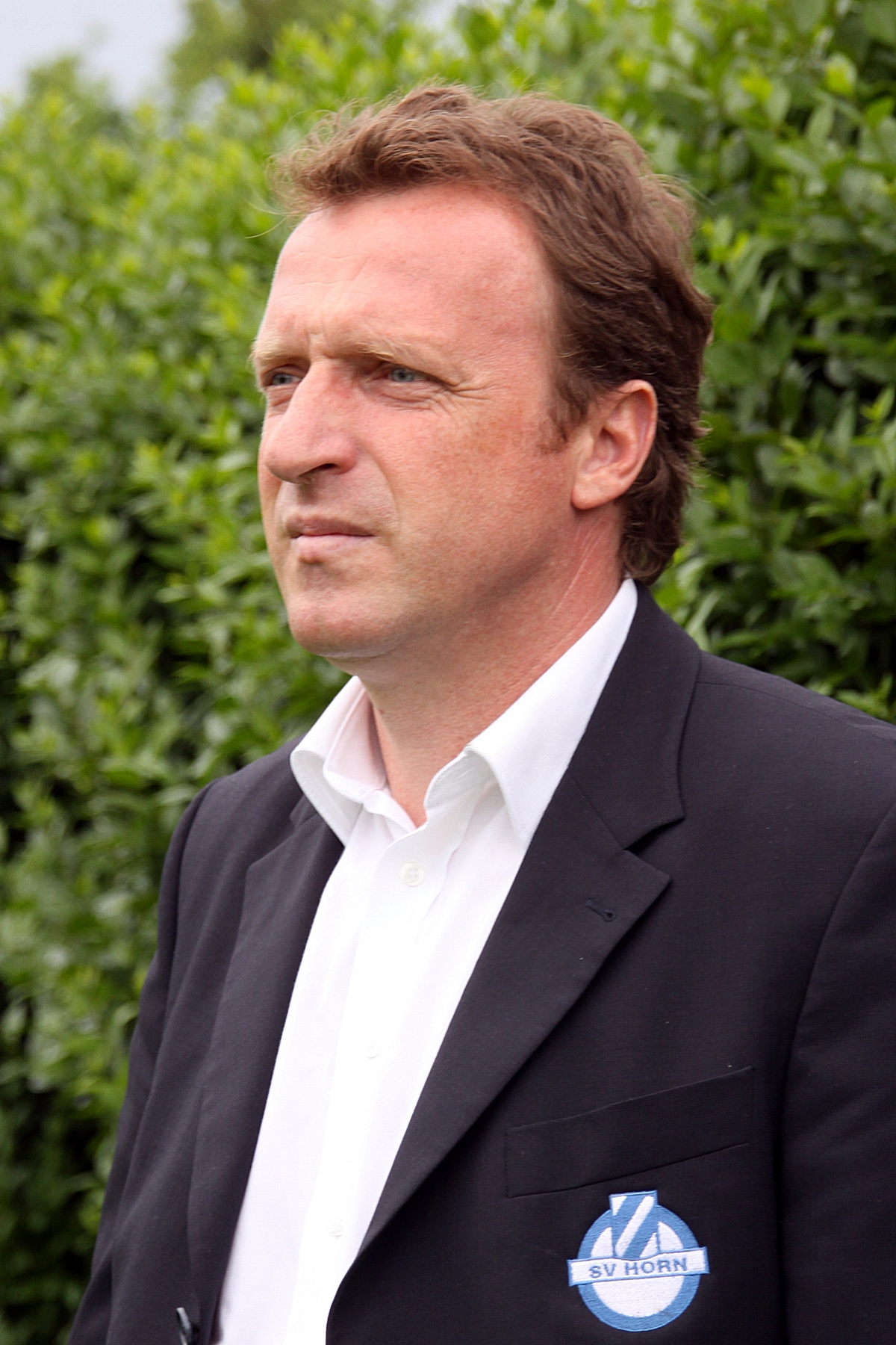 Rupert Marko - Coach of SV Horn